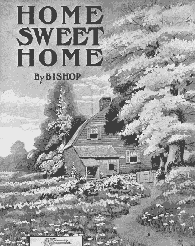 Cover of sheet music for "Home! Sweet Home!" words by H.R. Bishop [and John Howard Payne], music by H.R. Bishop, Chicago: McKinley Music Co., c. 1914